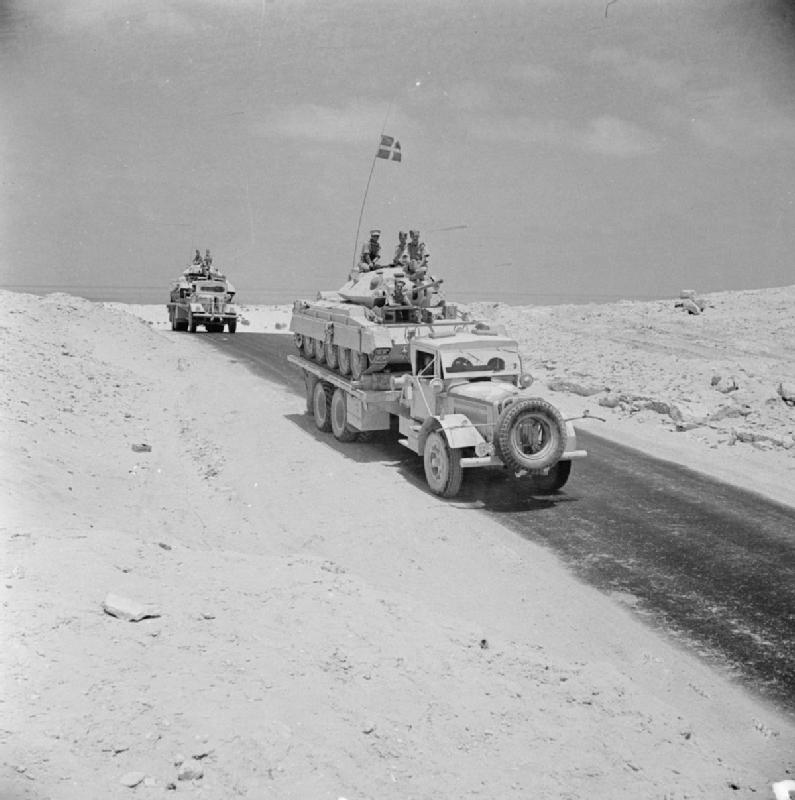 The British Army in North Africa 1942 White Ruxtall 922 18Ton 6x4 Tank Transporters carrying re-conditioned Crusader tanks back to the front line, 23 July 1942.